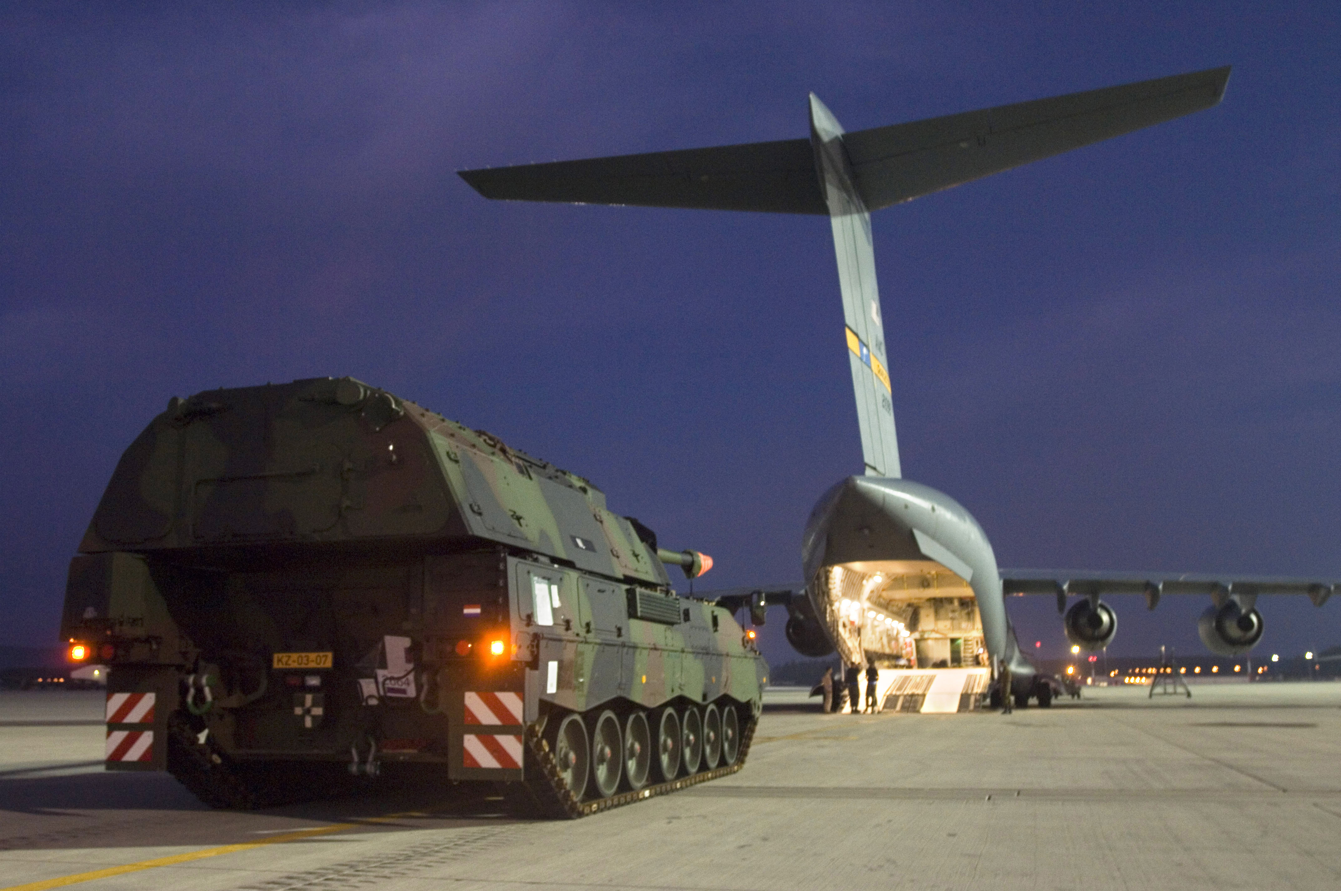 A Howitzer 2000 tank from the Netherlands waits on the ramp for loading onto a C-17 Globemaster III aircraft at Ramstein Air Base, Germany, Sept. 6, 2006. The C-17, from the Charleston Air Force Base, S.C., is transporting the 60-ton tank to Afghanistan.